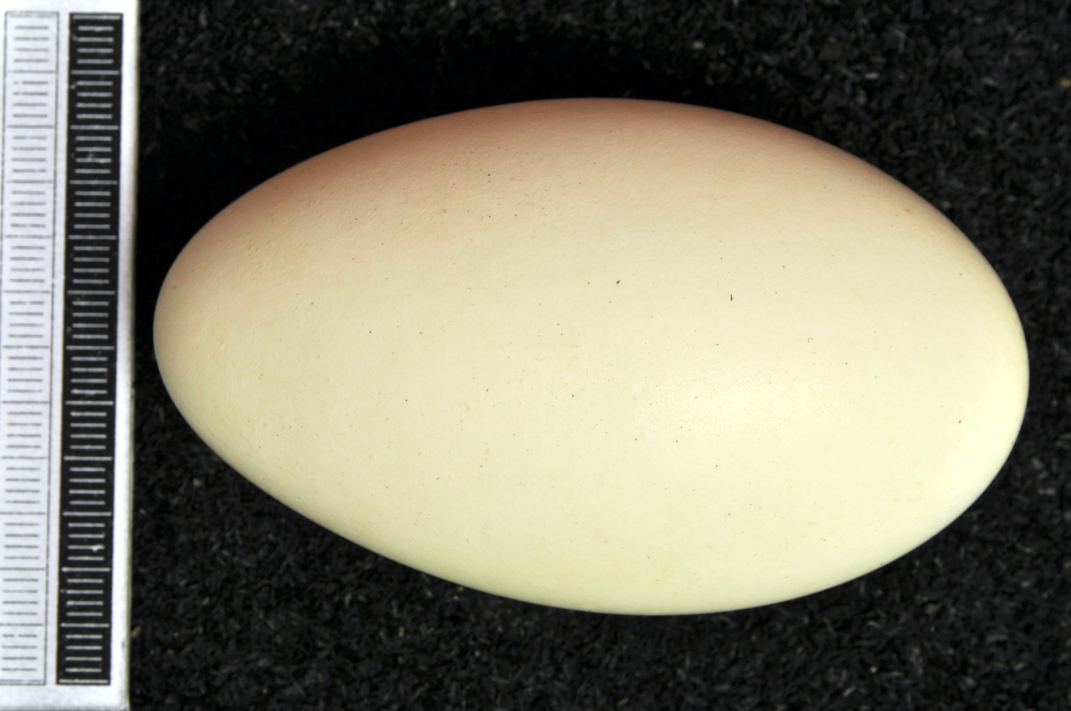 Brant goose Branta bernicla , egg, Coll. Museum Wiesbaden